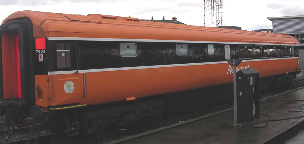 Iarnród Éirann British Rail Mark 3 restaurant car 7402